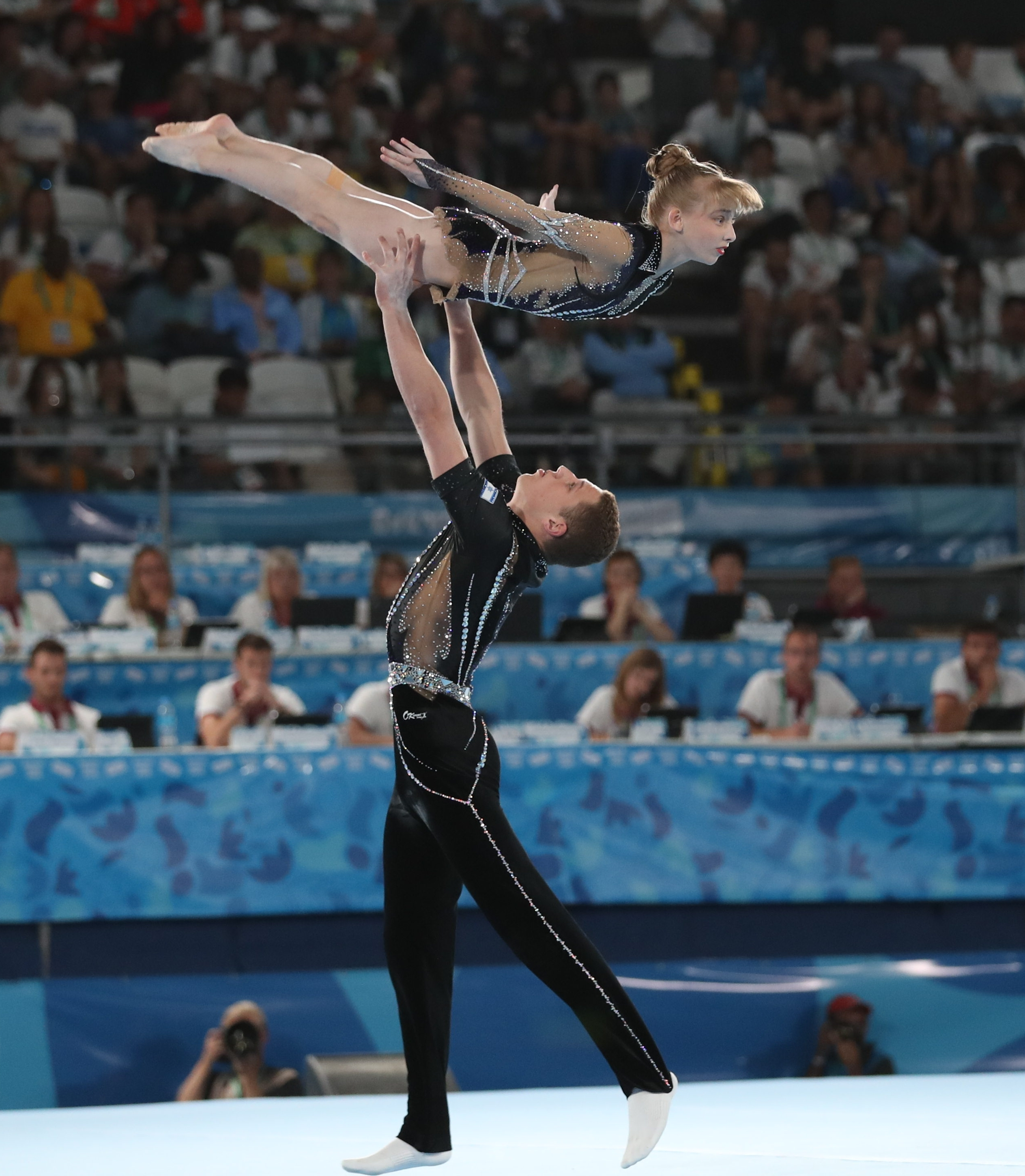 Acrobatic gymnastics final at the 2018 Summer Youth Olympics in Buenos Aires on 15 October 2018.